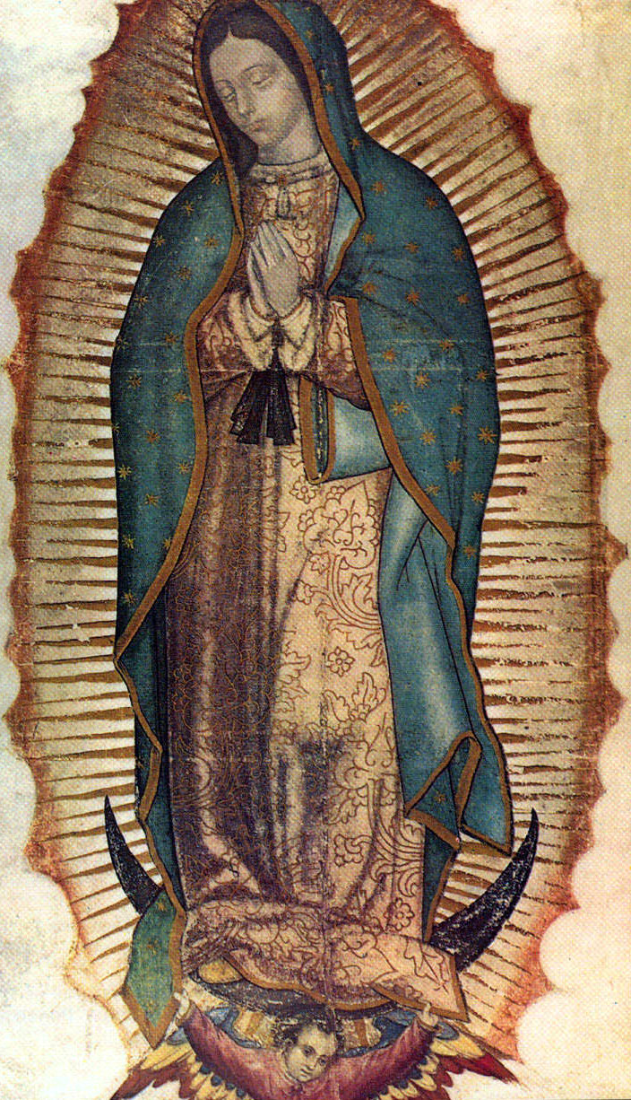 Our Lady of Guadalupe